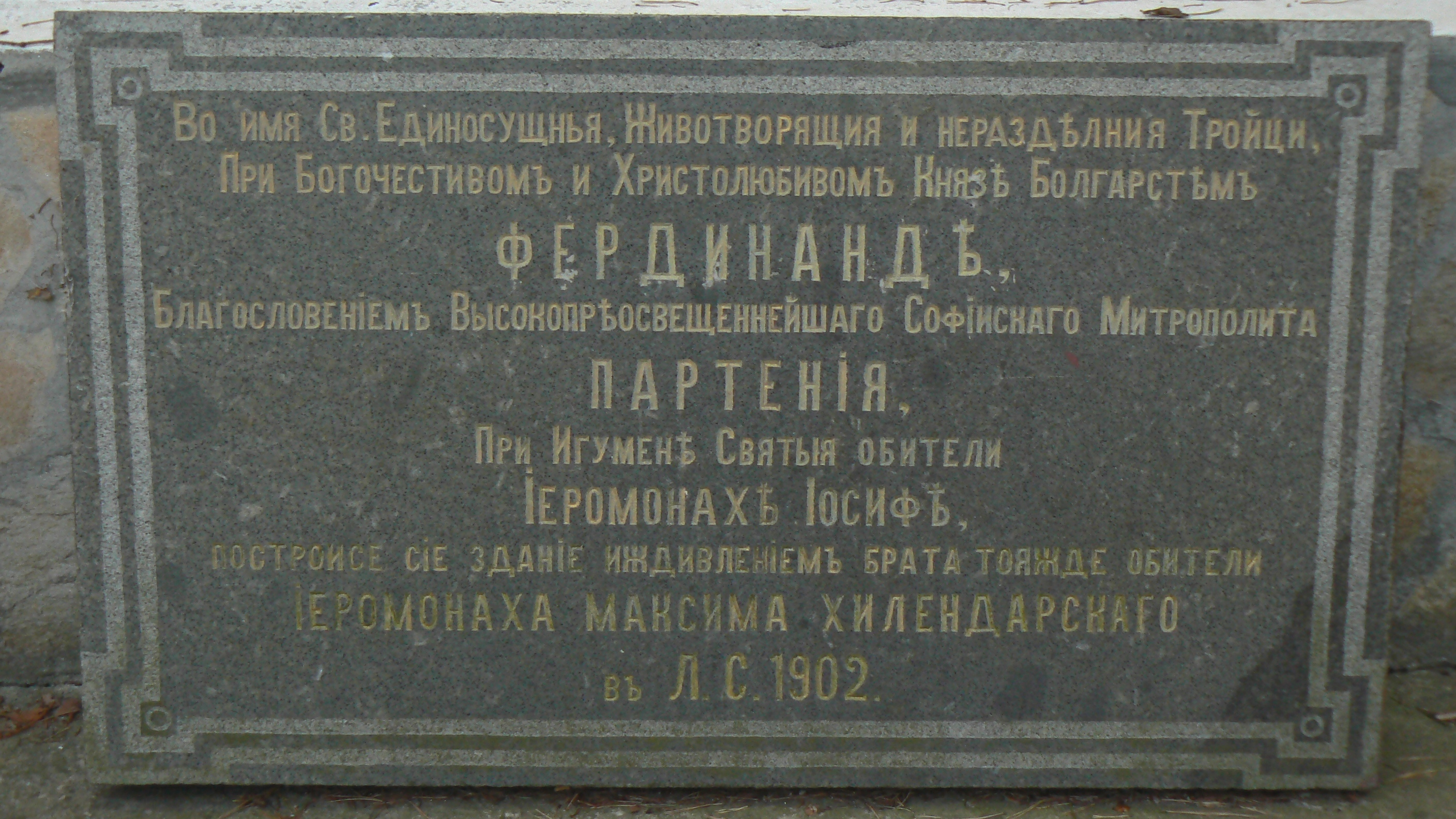 A memorial plaque of Divotino Monastery, Bulgaria